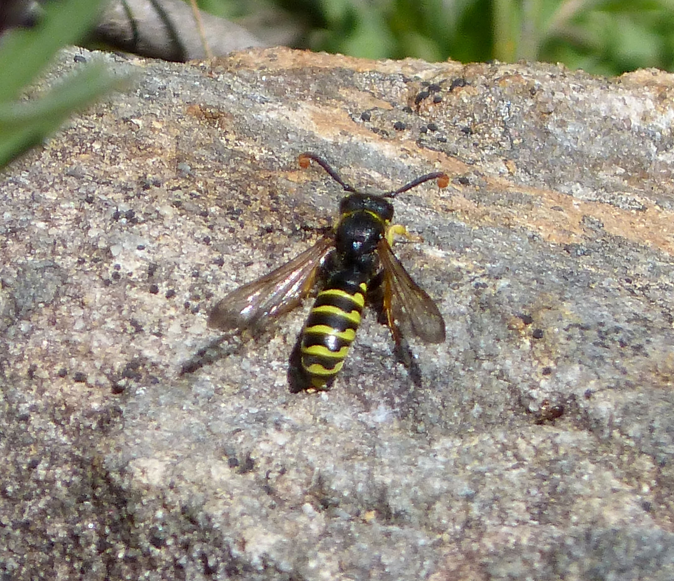 Alcornocales N.P. Andalucia, Spain Pollen wasps forsake stinging, eating, and feeding other insects to their offspring, for plying flowers. They harvest pollen and nectar Masarines share their vegetarian habit and other interesting characteristics with bees, their distant relatives in the order Hymenoptera. Like most bees, masarines are solitary - there is no colony or evidence of social behavior - each female acts independently to nest and forage for her offspring. Masarines have long mouthparts, common (though far from universal) in bees, that enable them to reach the nectar of some flowers with deep corolla tubes, like beardtongues (Penstemon). They collect nectar and pollen in an internal crop, as do some bee species, not in a hairy external apparatus on the hind legs or under the abdomen, as do most bees. Like some other bees (and wasps), North American masarines make hard nests of mud attached to rocks, ledges, and sometimes twigs. Typically, nests are arranged as multiple parallel cells. Each cell contains an egg and a single pollen-nectar loaf, sealed with a mud plug. Masarines occur on all continents but Antarctica, although they are abundant in relatively few places. They are especially diverse in the fynbos and karoo biomes of southern Africa, but not in North America where only 14 members of a single western genus, Pseudomasaris, occur. The clubbed antennae of Pseudomasaris are a distinctive characteristic enabling one to separate them from our more common wasps.